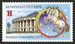 Belarusian state circus.